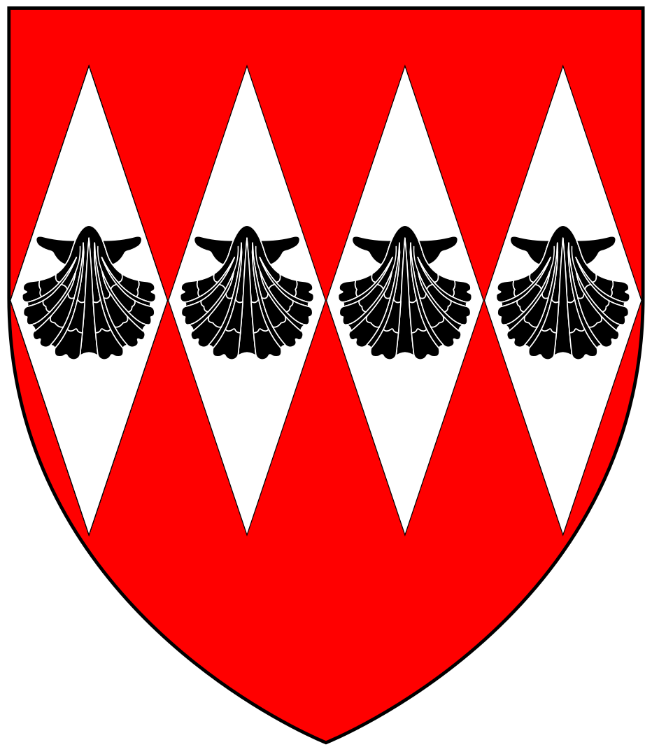 Arms of Cheyne/Cheney of Broke (Brook, Heywood), Wiltshire: Gules, five fusils in fess argent on each an escallop sable. (Source: Vivian, Lt.Col. J.L., (Ed.) The Visitation of the County of Devon: Comprising the Heralds' Visitations of 1531, 1564 & 1620, Exeter, 1895, p.171, Cheyne of Pinhoe, Devon)